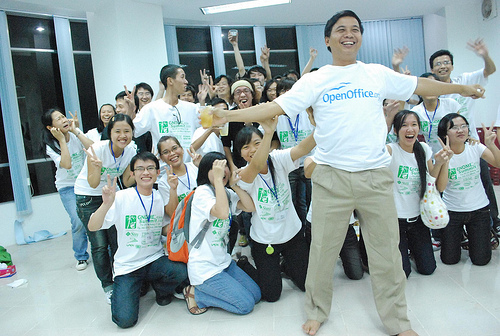 FOSSASIA community at GNOME.Asia Summit 2009